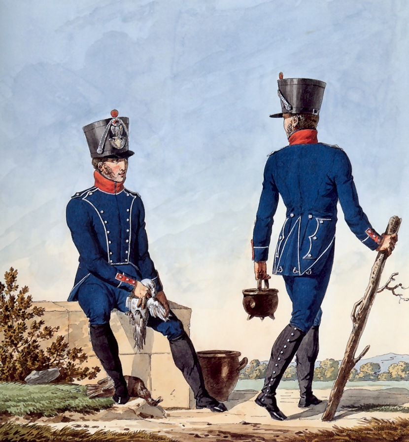 Part of a series chronicling the uniforms of Napoleon's Grande Armée.